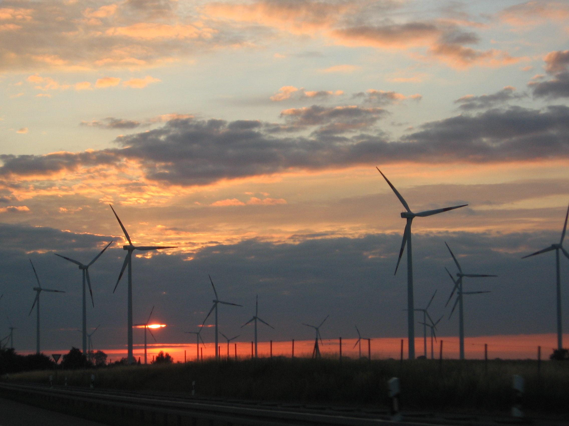 Wind generators, early in the morning, Prentzlau, Germany